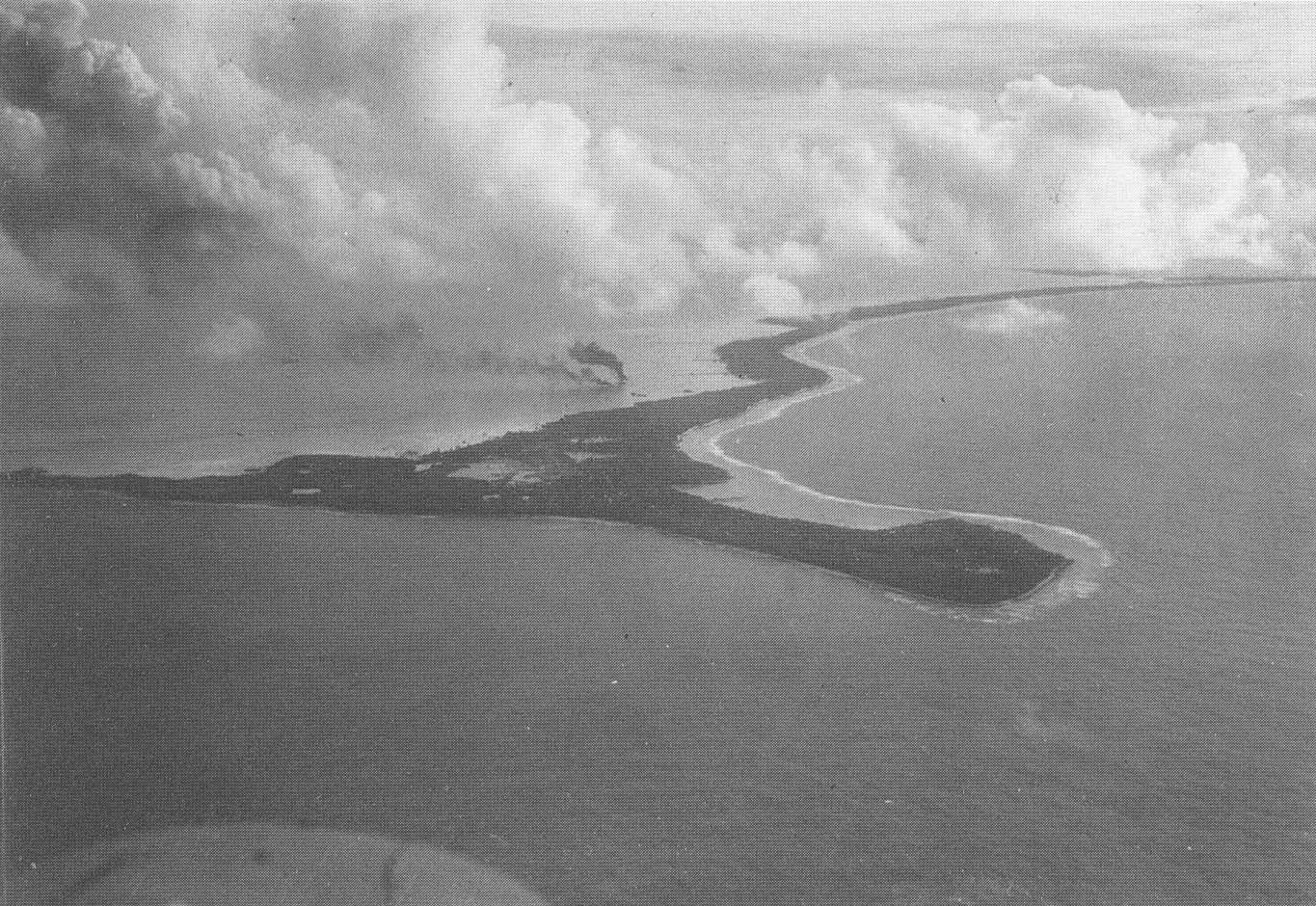 Smoke rises from two Imperial Japanese Navy Kawanishi flying boats torched off of Makin Island by dive bombers from USS Yorktown (CV-5) of VS-5 during the Marshall-Gilberts raids in February 1942.